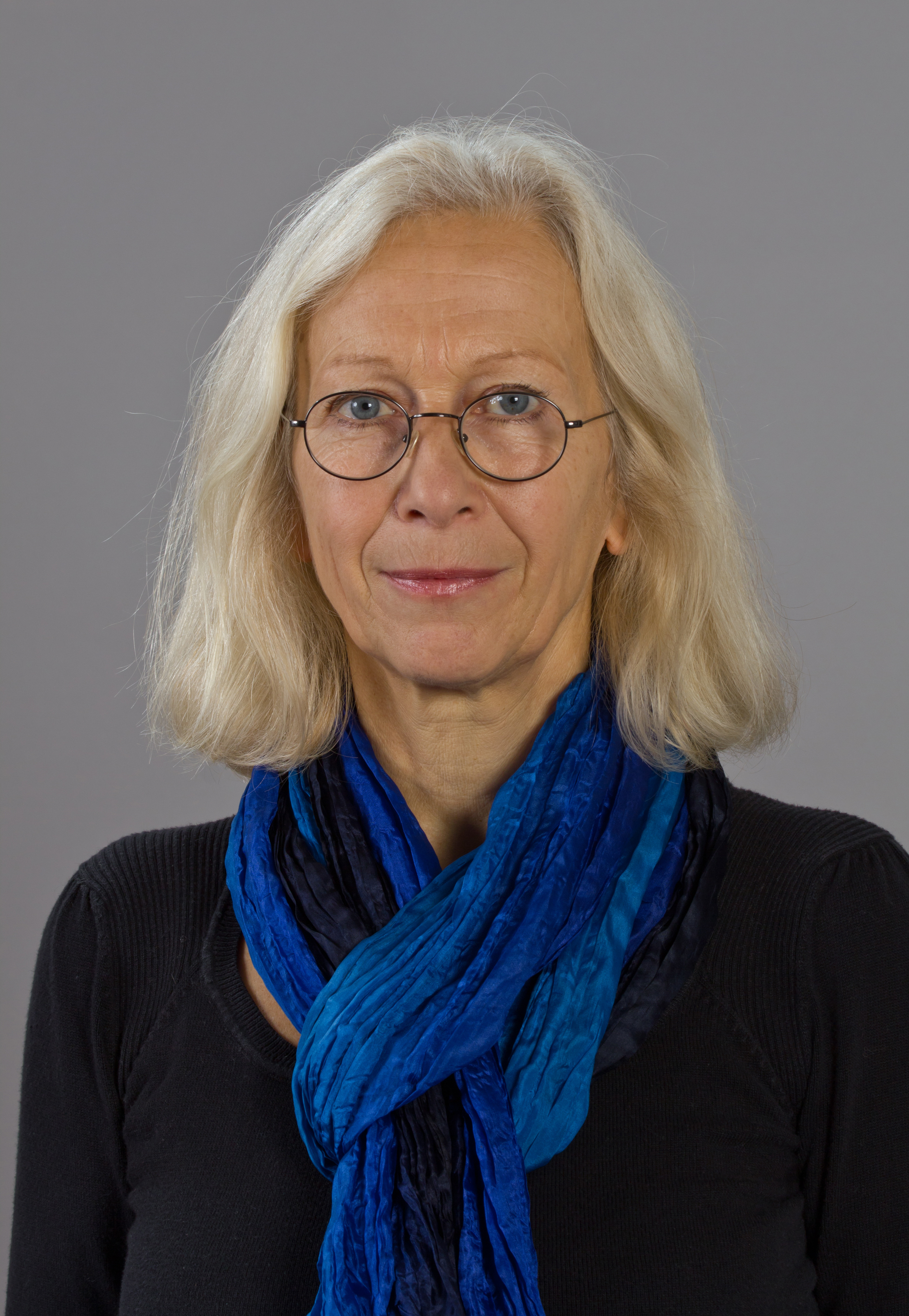 Claudia Hämmerling, politician from Germany, member of Abgeordnetenhaus of Berlin (as of 2013)